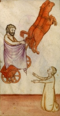 Elijah's ascension.